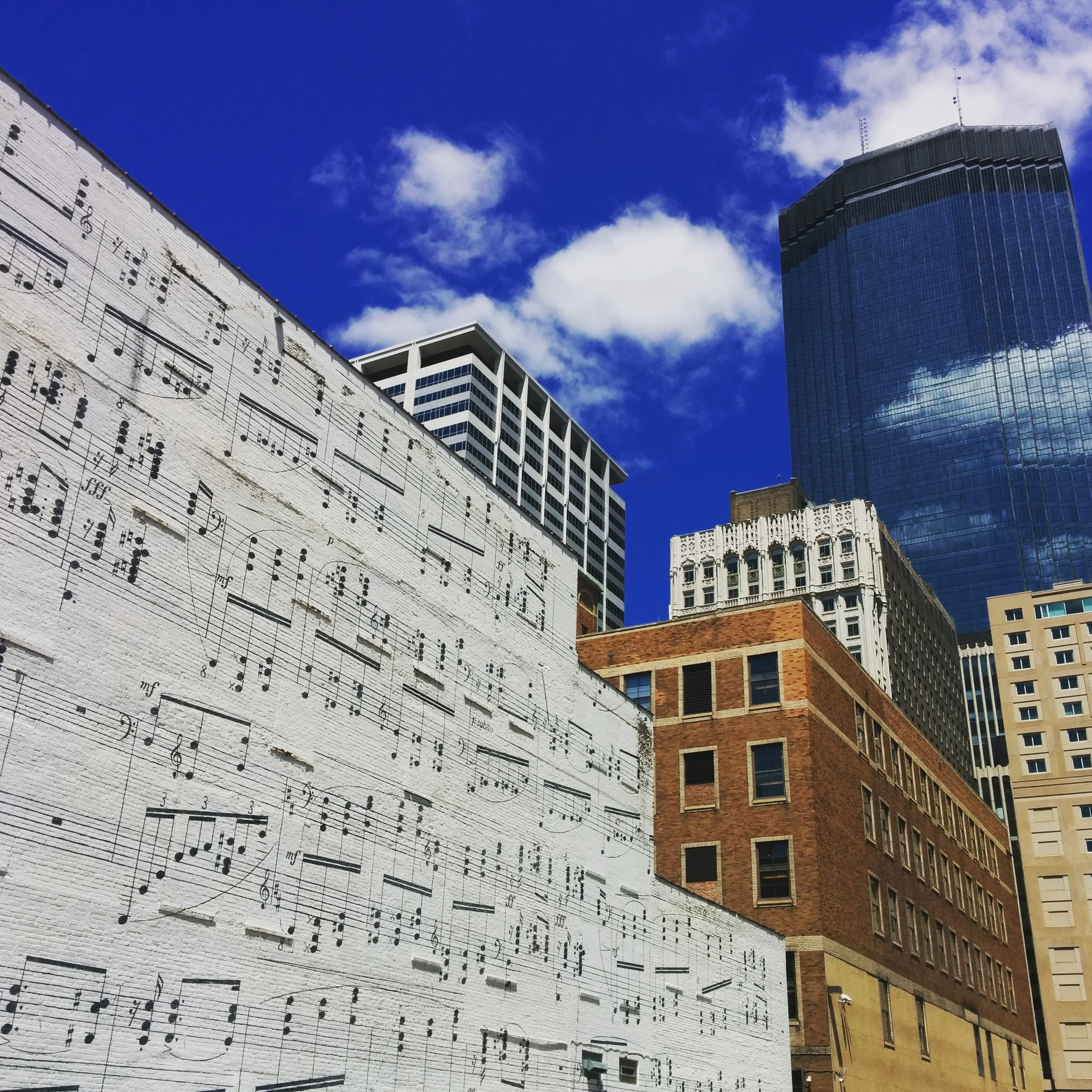 The Schmitt music mural in downtown Minneapolis, dates to the 1970s and features a five-story tall excerpt of Maurice Ravel's "Gaspard de la Nuit"